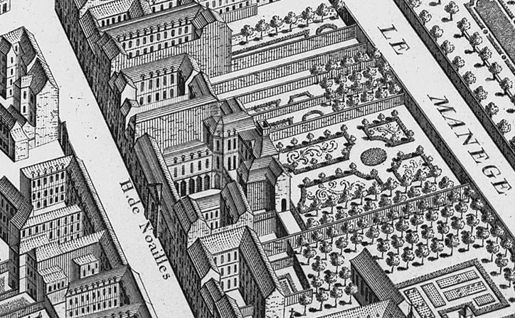 The grounds of the Hôtel de Noailles from the Turgot map of Paris circa 1737